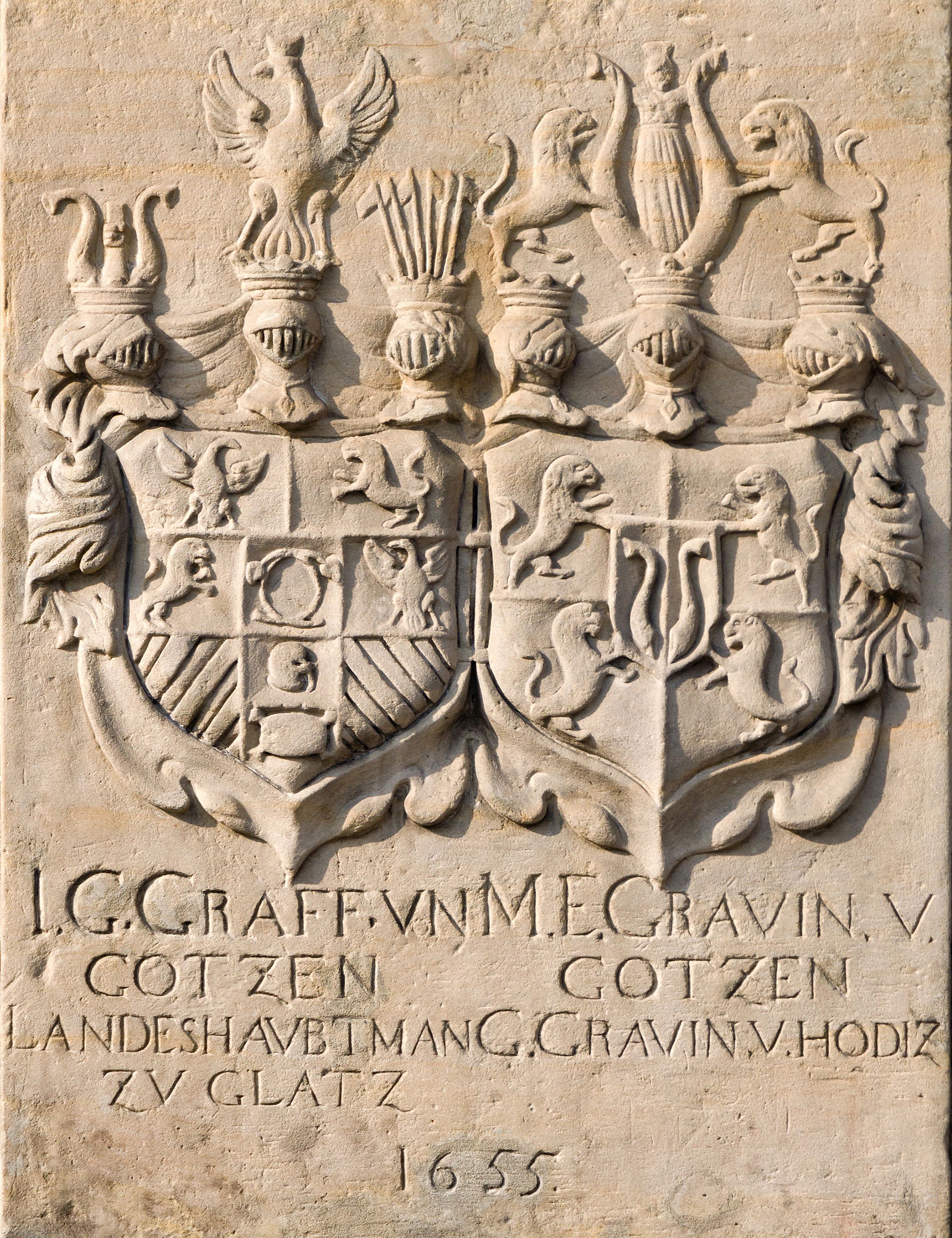 Von Goetzen coat arm on the gothic bridge in Kłodzko